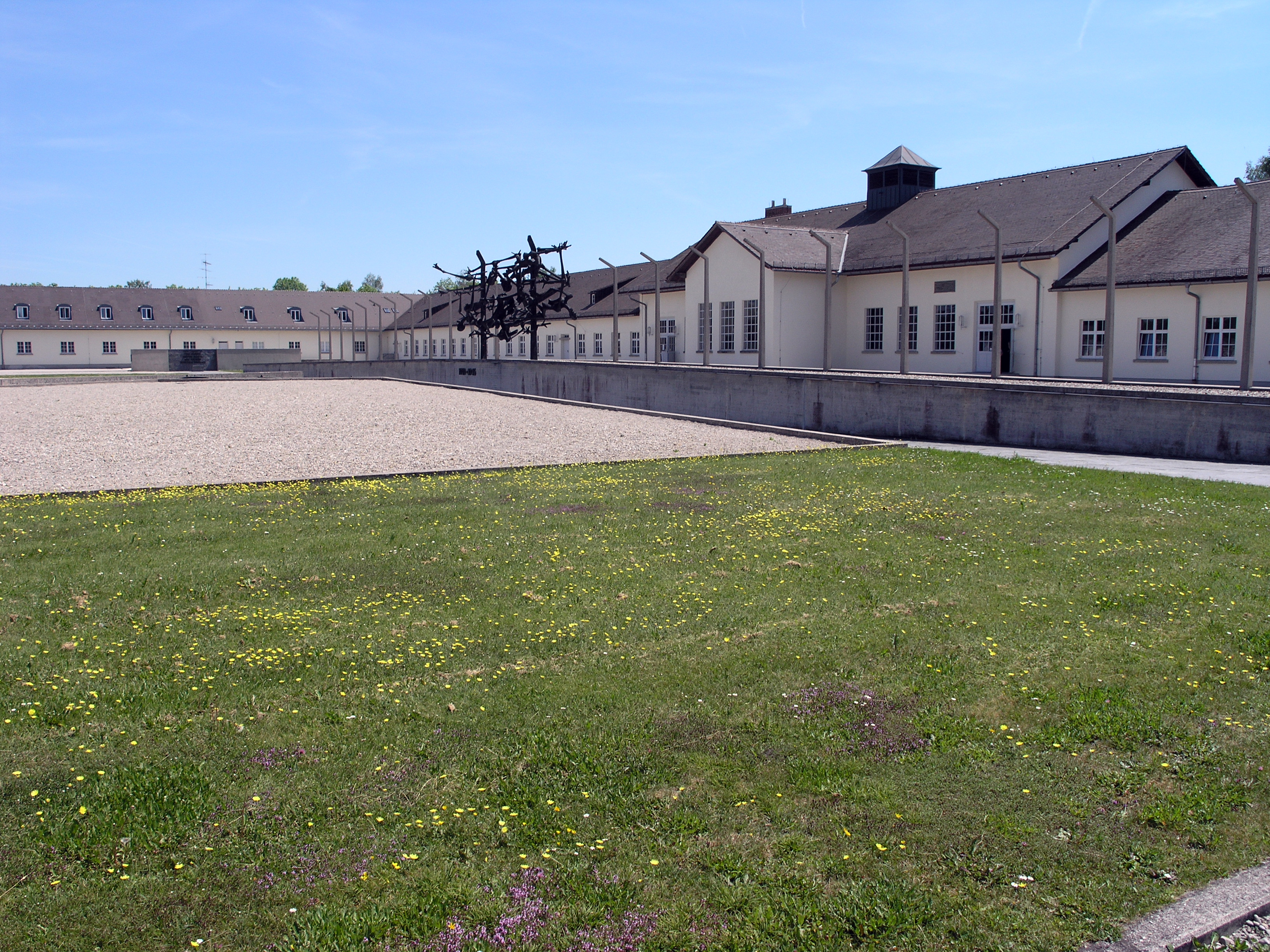 The building now contains the museum in Dacha